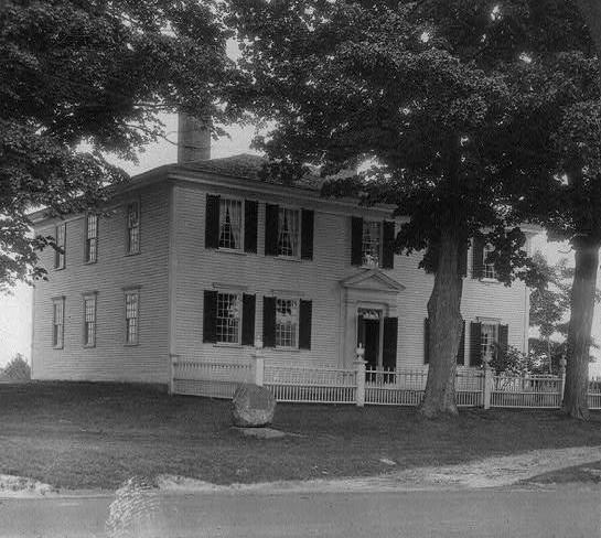 Birthplace of Franklin Pierce, Hillsborough, New Hampshire